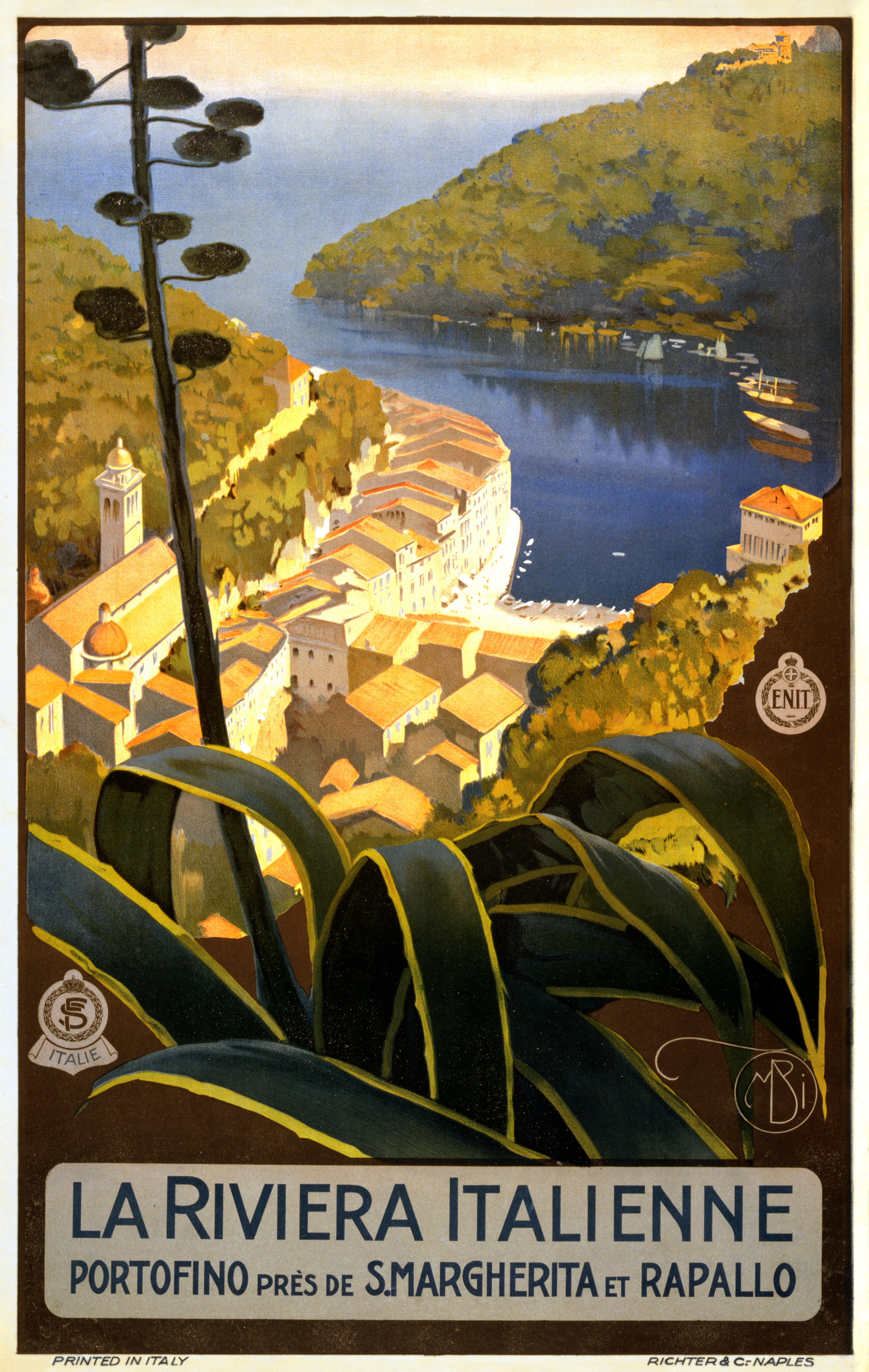 La Riviera italienne, Portofino près de S.Margherita et Rapallo. Travel poster by Mario Borgoni shows the Italian Riviera at Portofino from a terrace above the coastline. Richter & Cia., Napoli, for ENIT (Ente Nazionale Italiano per il Turismo), ca. 1920. From the Artist Posters Collection at the Library of Congress More ENIT travel posters | More artist posters [PD] This picture is in the public domain.